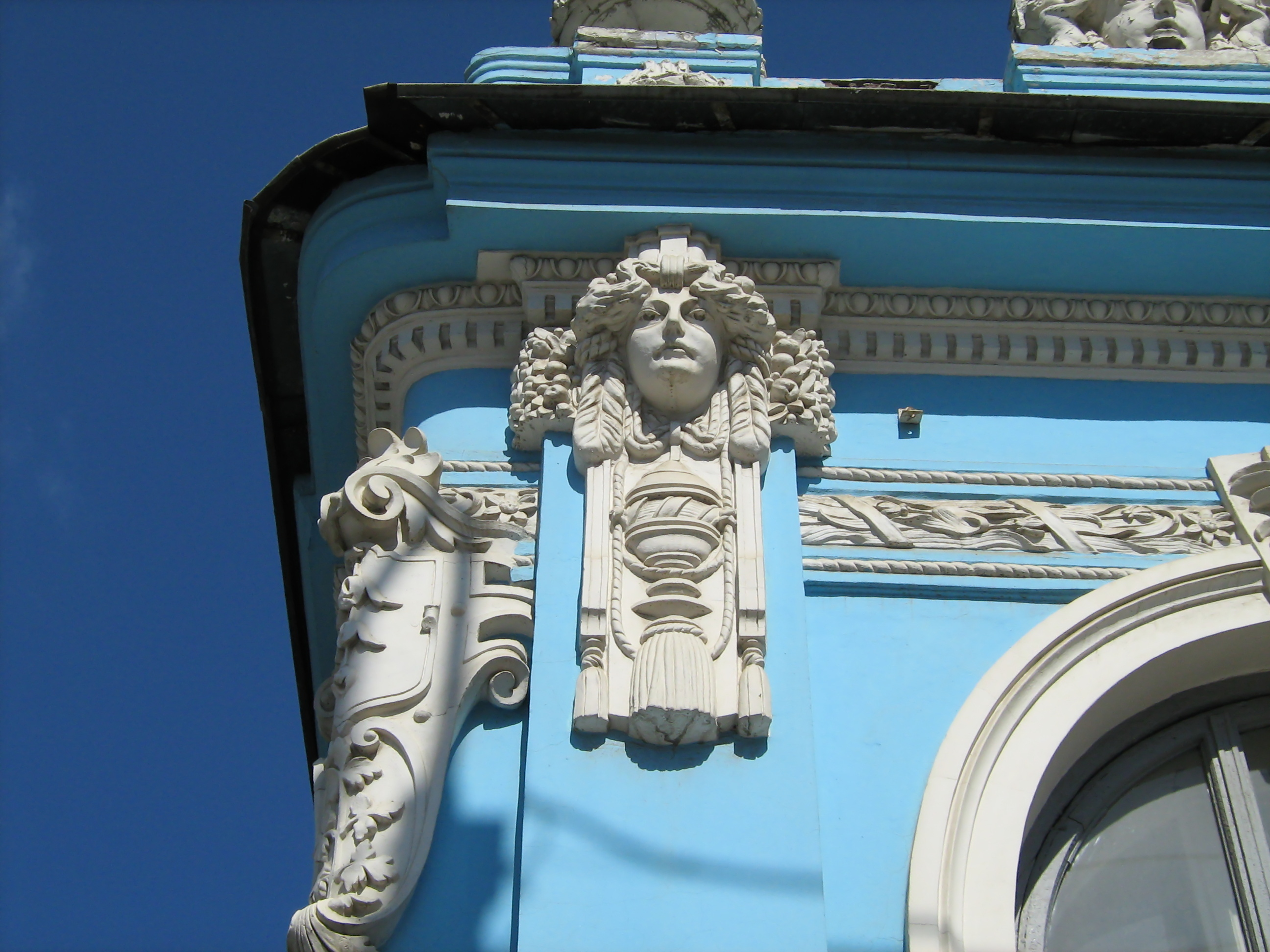 Gribushin House, Perm. A sculpure.